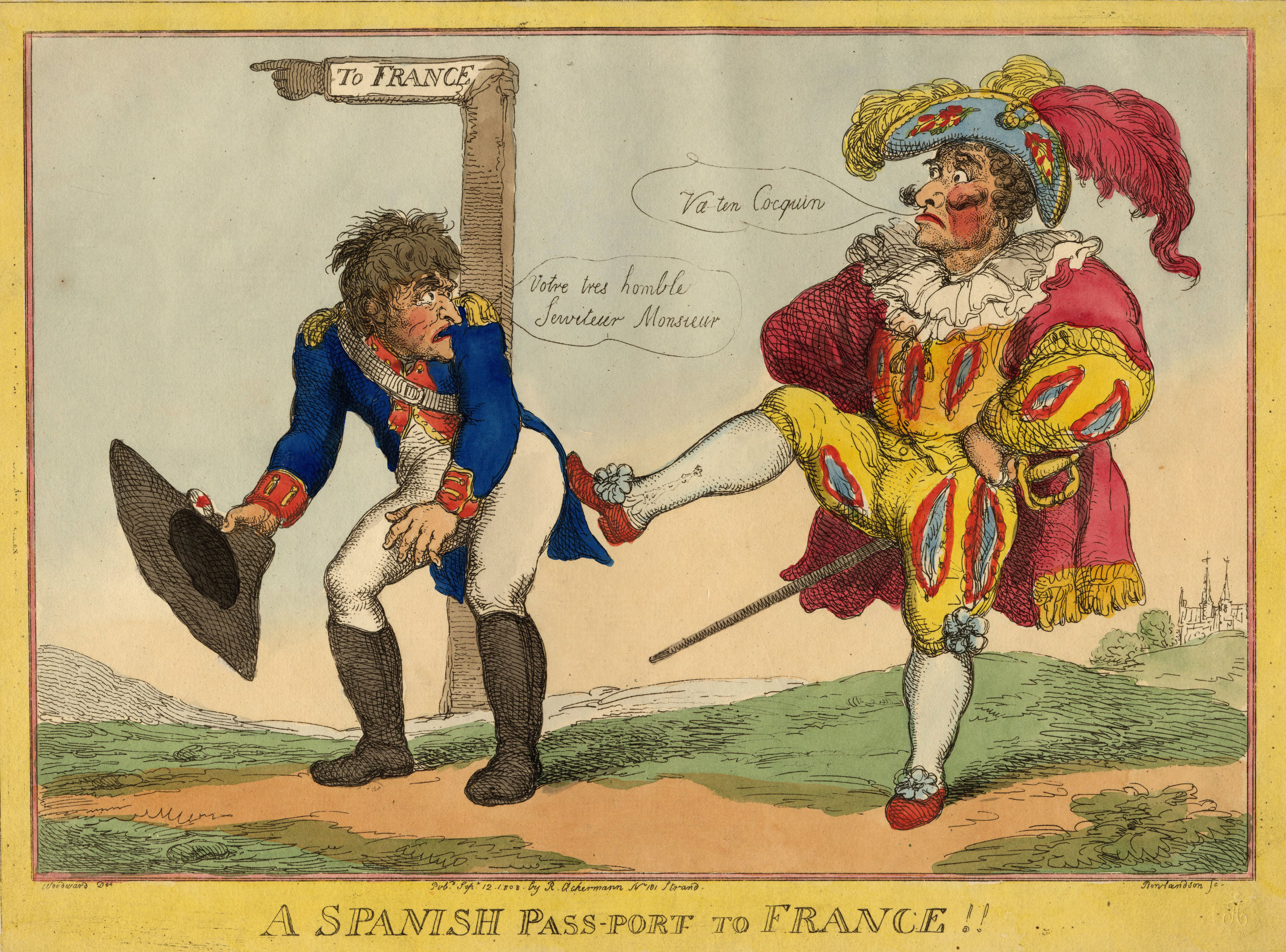 Hand-colored etched caricature by Rowlandson after Woodward; costumed Spaniard at right kicking out Joseph Bonaparte.